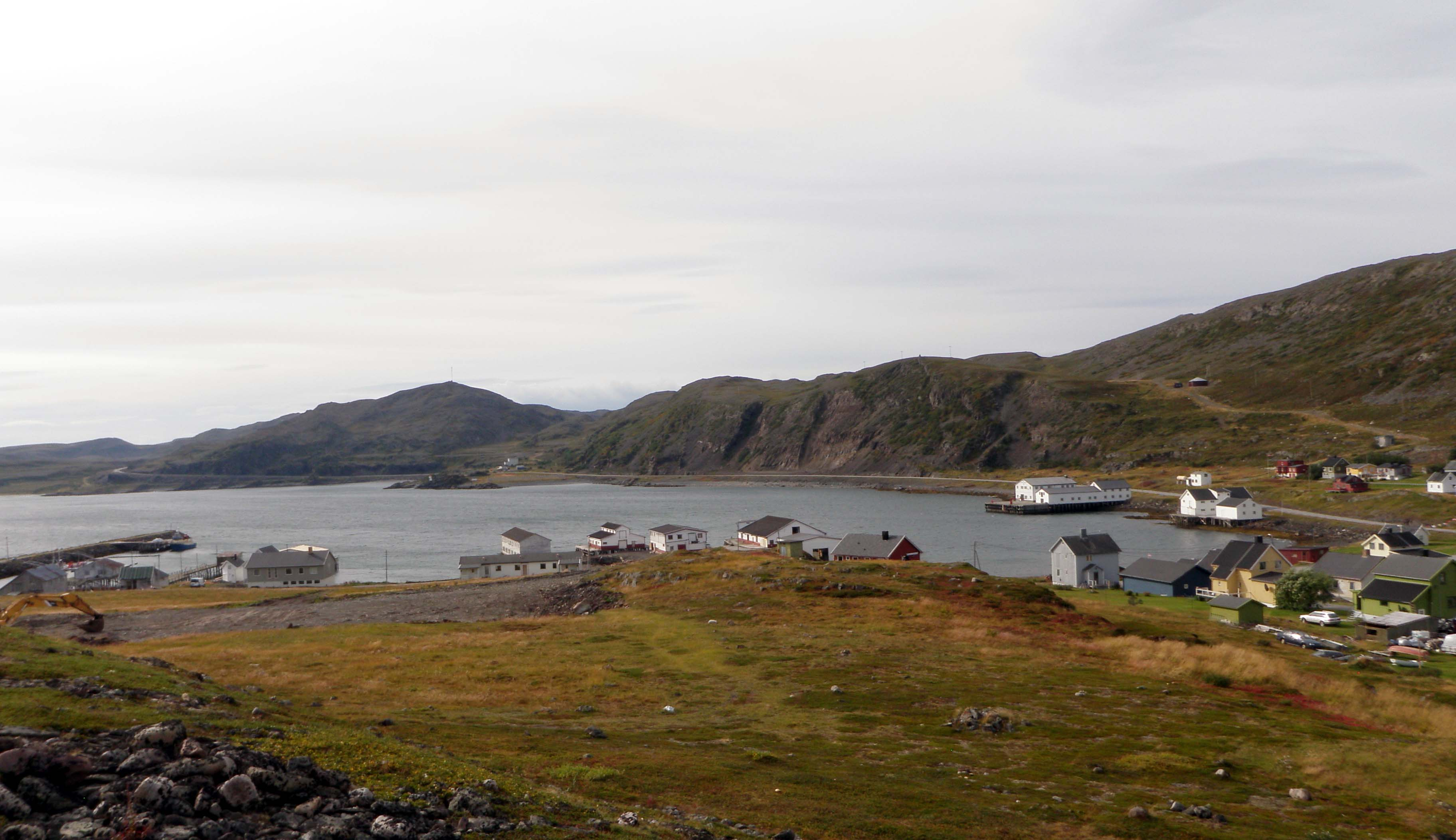 The seaside area of the village of Kongsfjord in Berlevåg, Finnmark, Norway. Several fisheries can be seen along the shoreline.